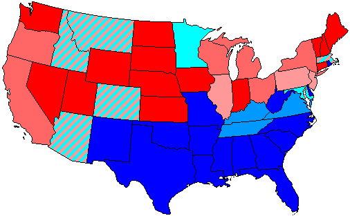 Summary of party control of U.S. house seats in the 84th United States Congress following election. Stripes indicate a tie between two or more parties. Legend: 80.1-100% Democratic seat majority 60.1-80% Democratic seat majority 60% or less Democratic seat plurality 60% or less Republican seat plurality 60.1-80% Republican seat majority 80.1-100% Republican seat majority